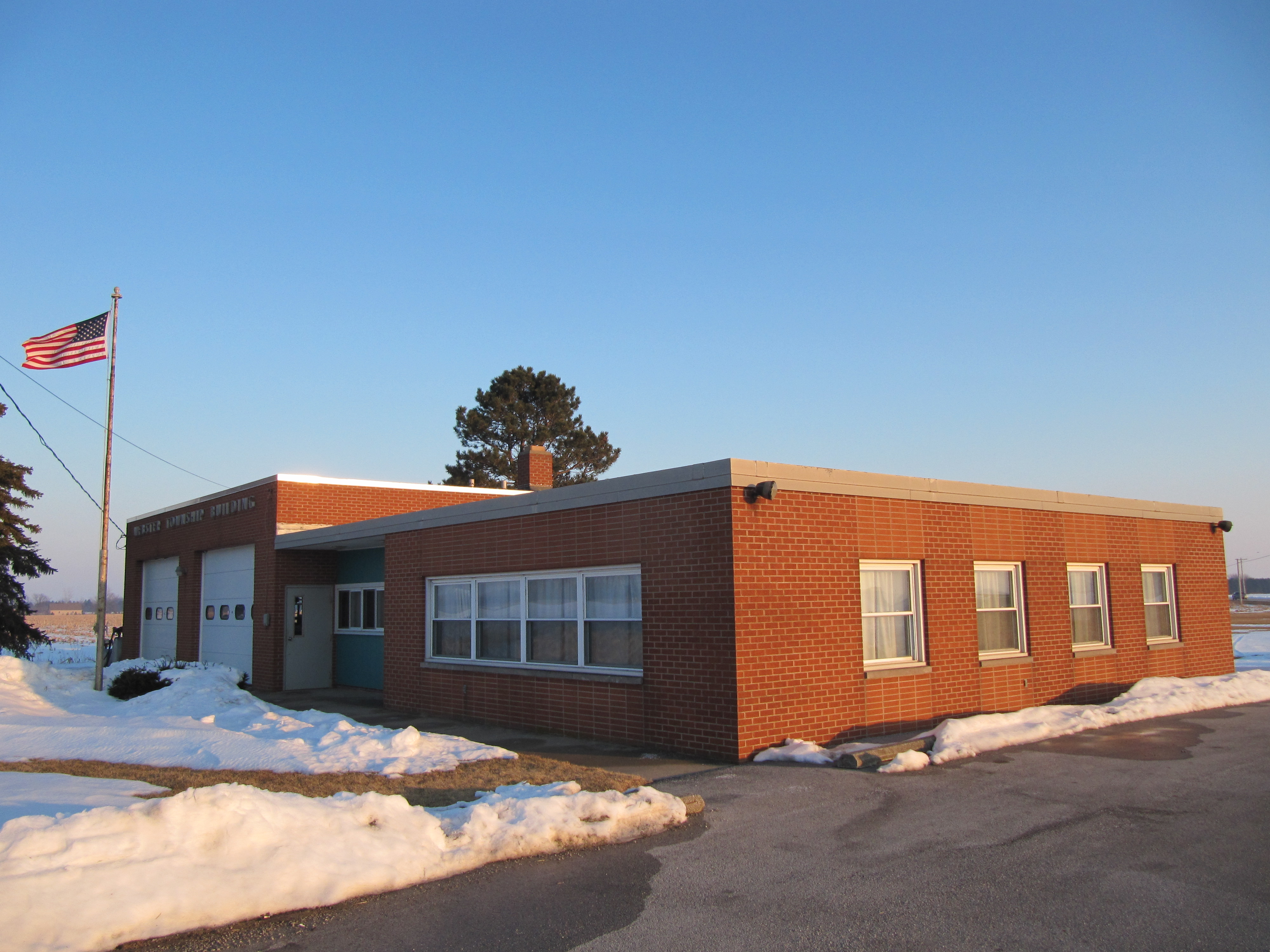 Photograph of the township municipal buildingen for Webster Township, Wood County, Ohioen, taken at street level from the intersection of Sugar Ridge Road and Ohio State Route 199.